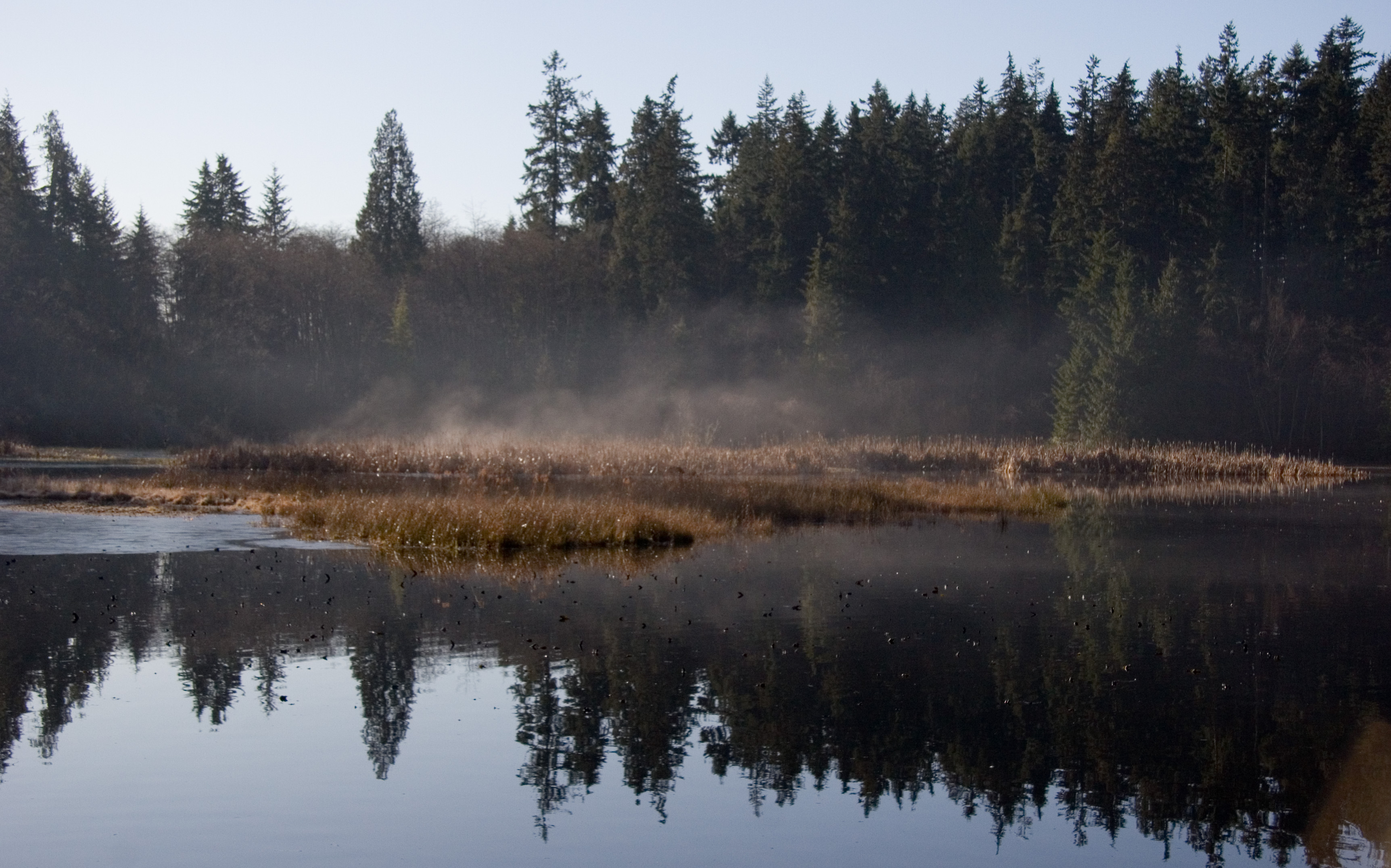 Beaver pond, Stanley park